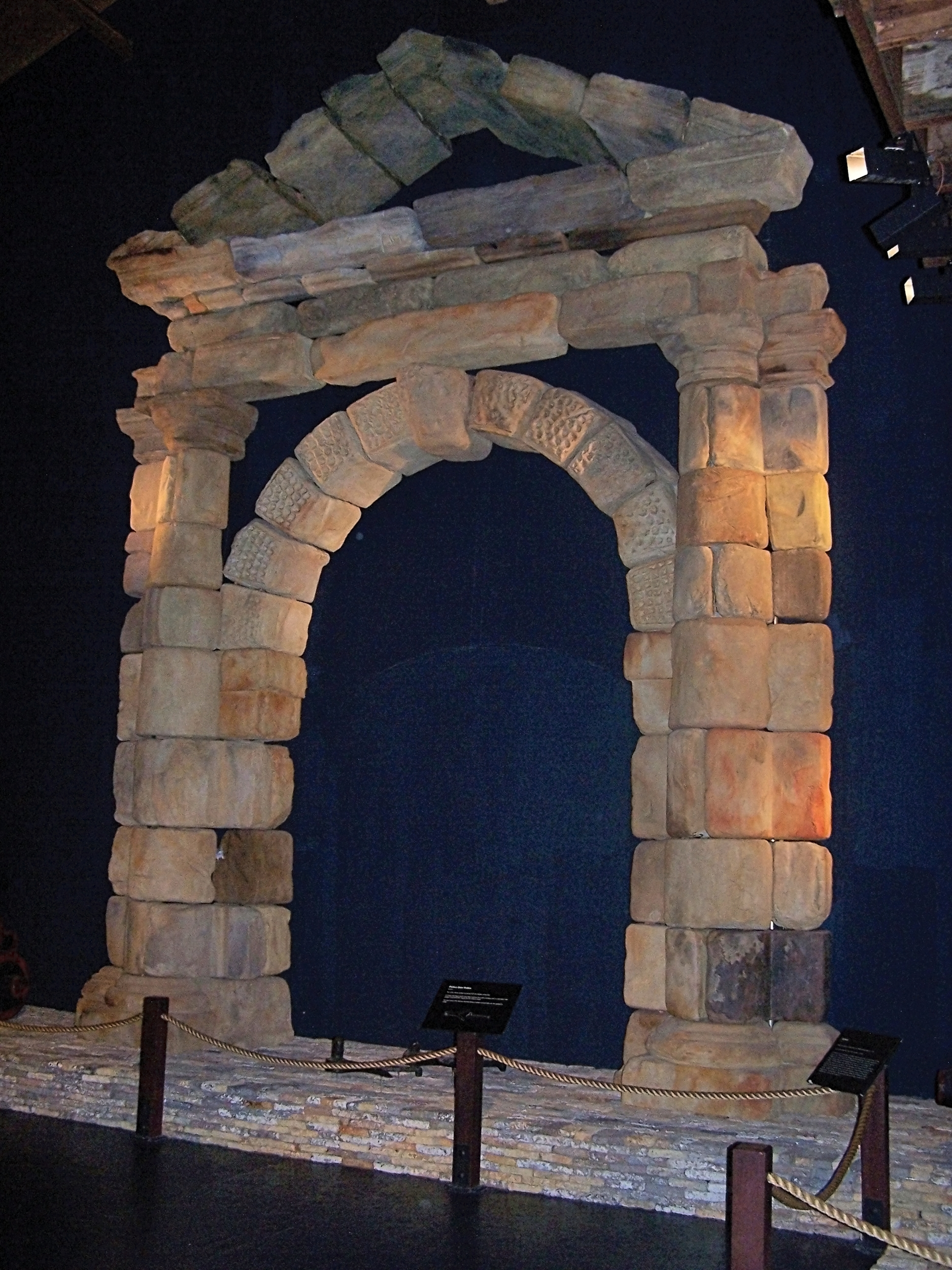 Replica of Arch way recovered from the Batavia wreck in the Shipwreck Galleries West Australian Maritime Museum Fremantle WA. Original is on display in the West Australian Maritime Museum Geraldton WA